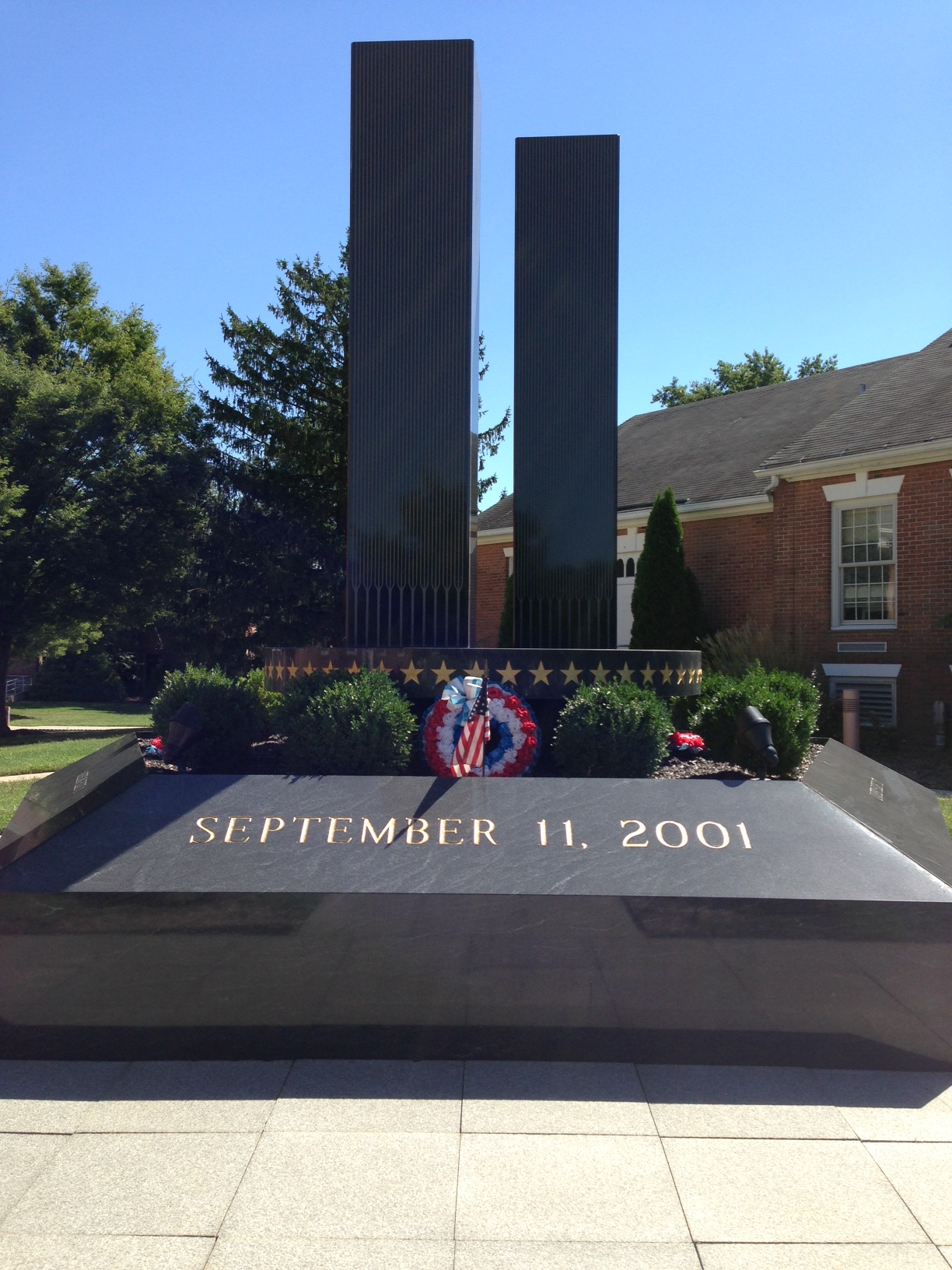 911 Memorial in Freehold Township, New Jersey.